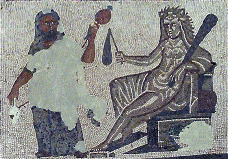 Hercules and Omphale. Detail of The Twelve Labours Roman mosaic from Llíria (Valencia, Spain). It shows Hercules wearing women's clothing and holding a ball of wool (left), and Omphale wearing the skin of the Nemean Lion and carrying Hercules' olive-wood club (right).